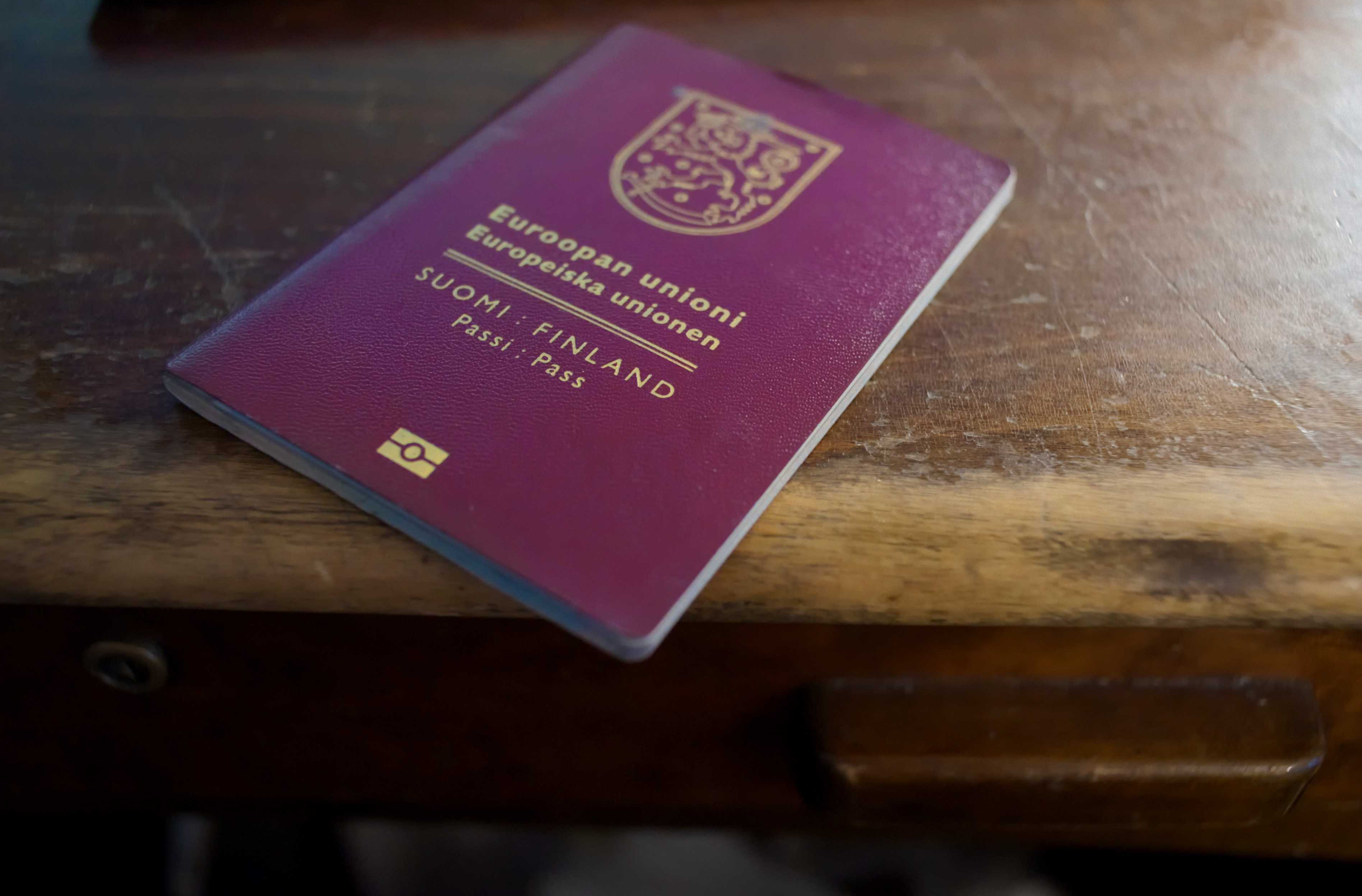 EU Passport